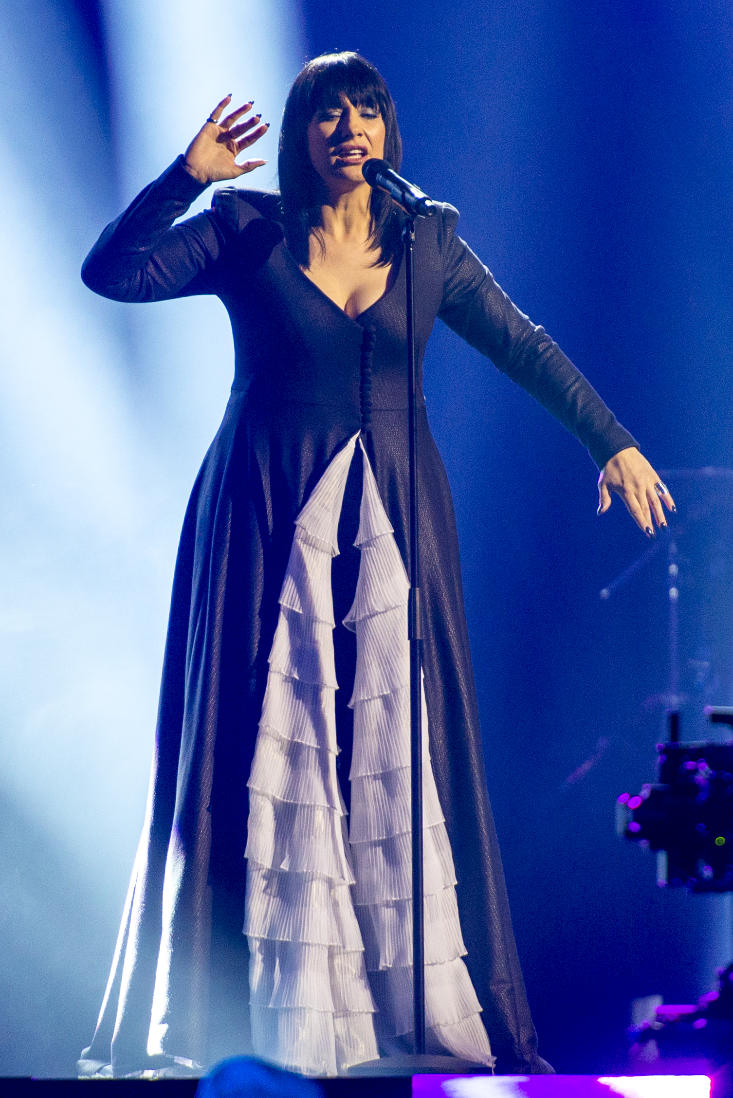 Kaliopi representing North Macedonia with the song "Dona" during a rehearsal before the second semi final of the Eurovision Song Contest 2016 in Stockholm. (Help translate this text)